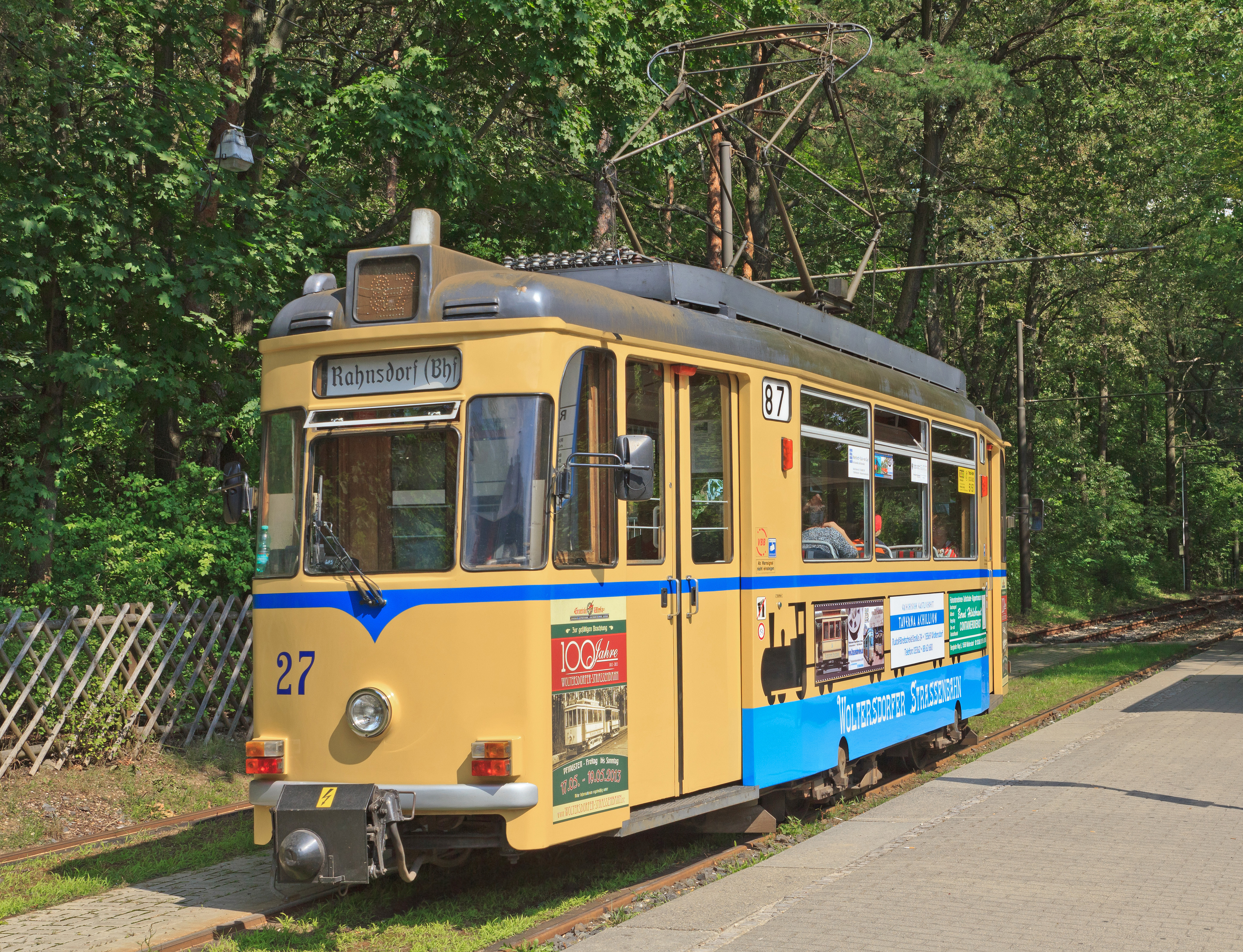 Woltersdorf tram at Berlin-Rahnsdorf station, Germany